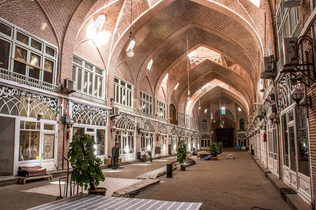 Mozaffariyeh, Bazzar of Tabriz, Iran